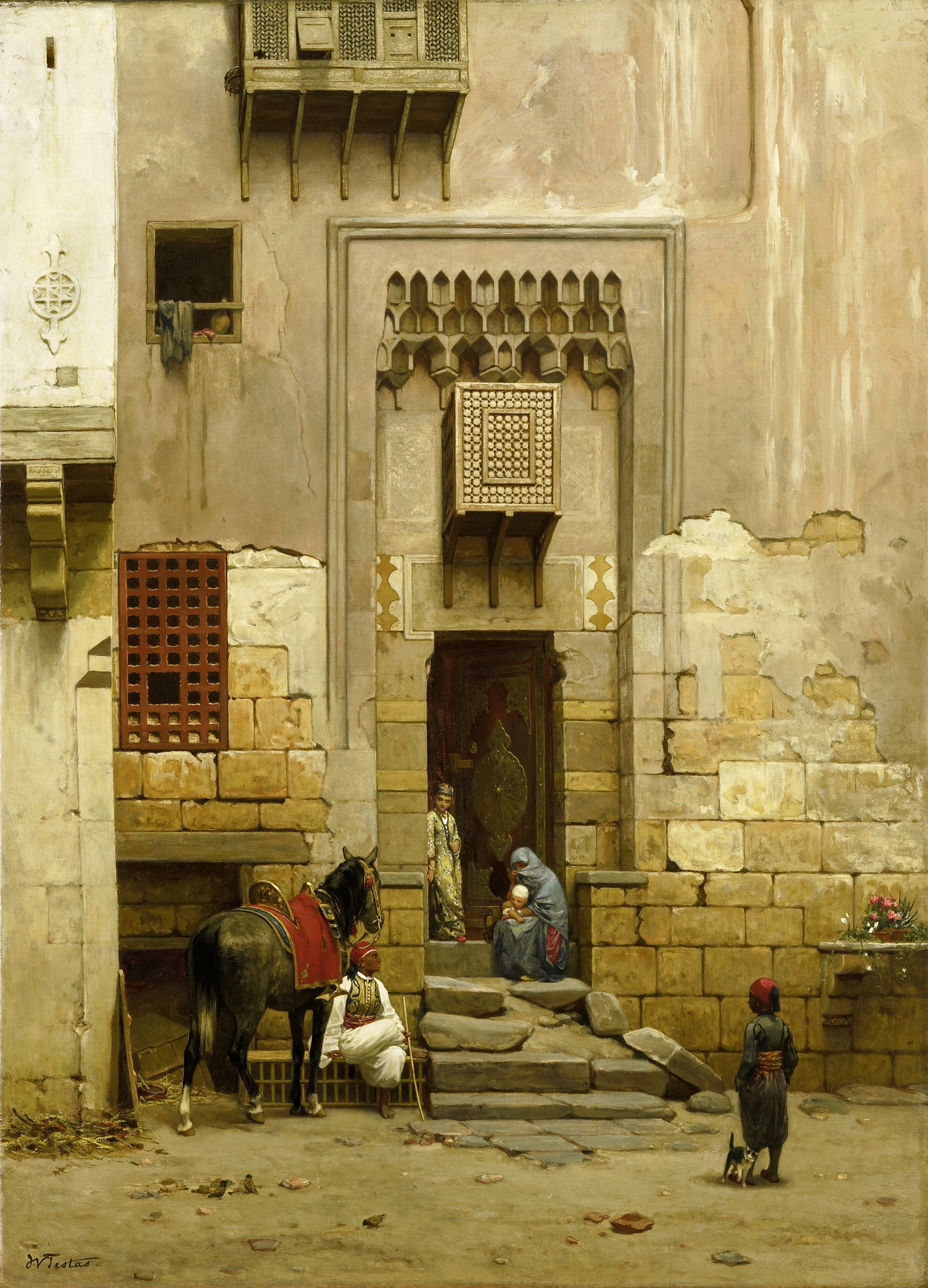 Courtyard of a house in Cairo. In the door opening of an old house a veiled mother with a child is talking to a man with a horse. Two children are looking on.